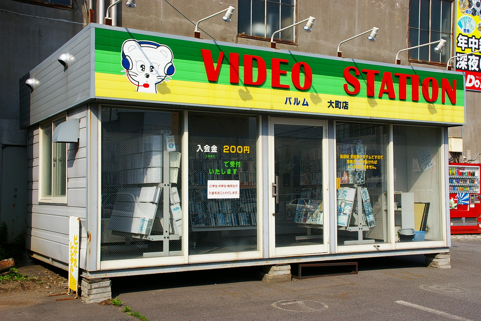 Japanese self-service video rental store.